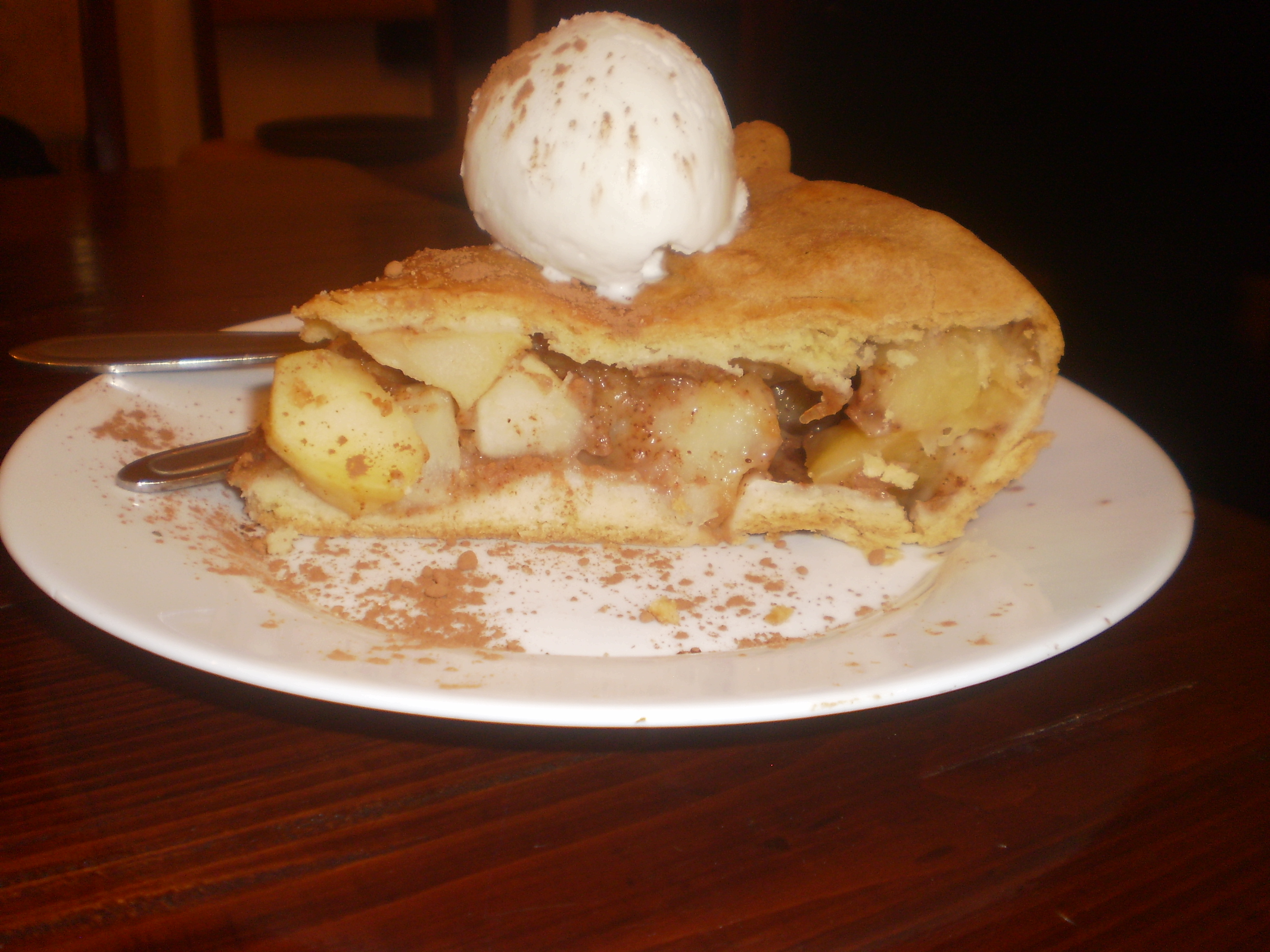 Armenian apple pie